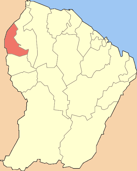 Made map myself.